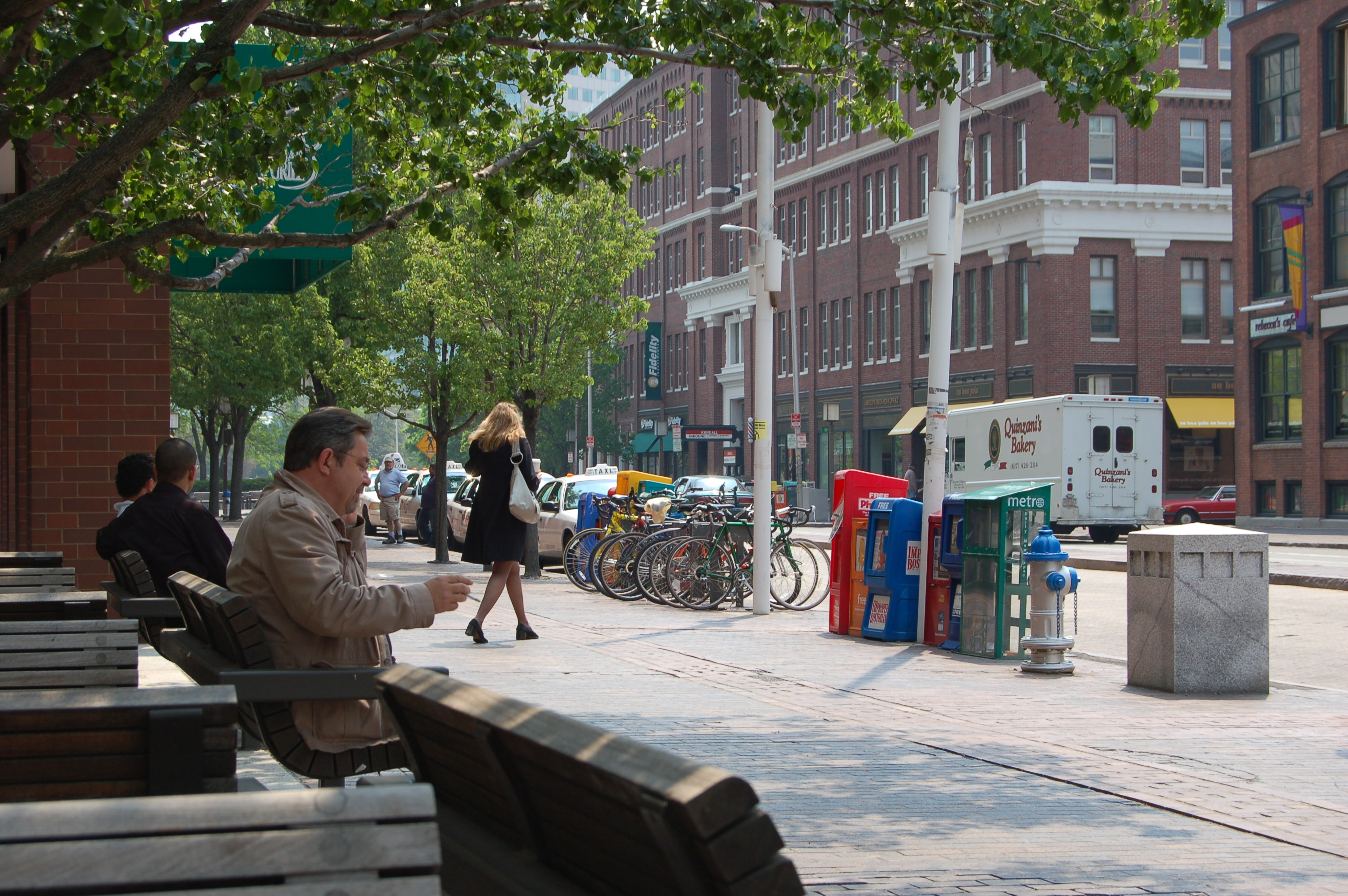 Kendall Square at Cambridge Center, a view of Main Street, in the direction of downtown Boston and the Longfellow Bridge.